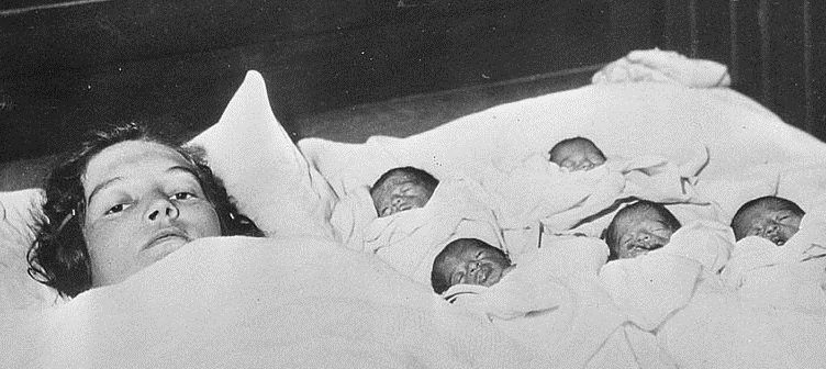 Dionne quintuplets with their mother.